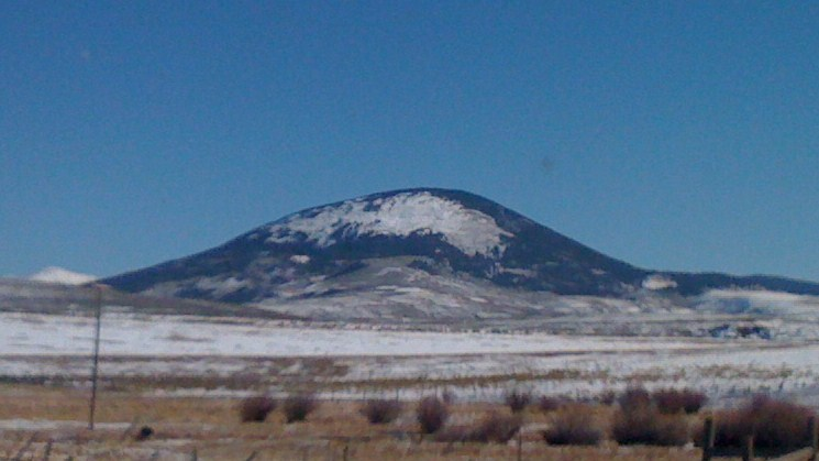 Photo of Tomichi Dome viewed from State Highway 50